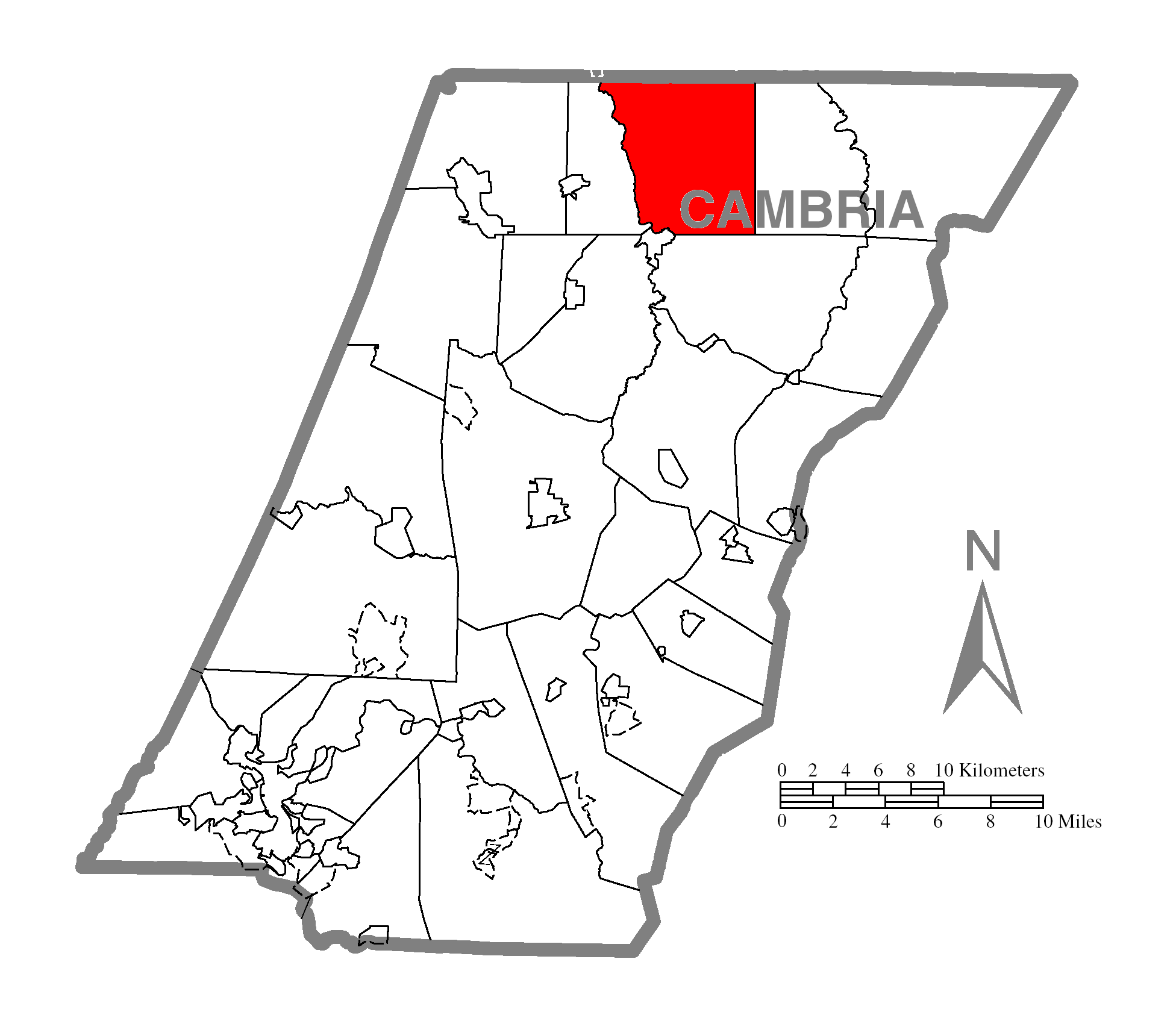 A map of Cambria County showing Chest Township, Pennsylvania (alternate) highlighted on the map.